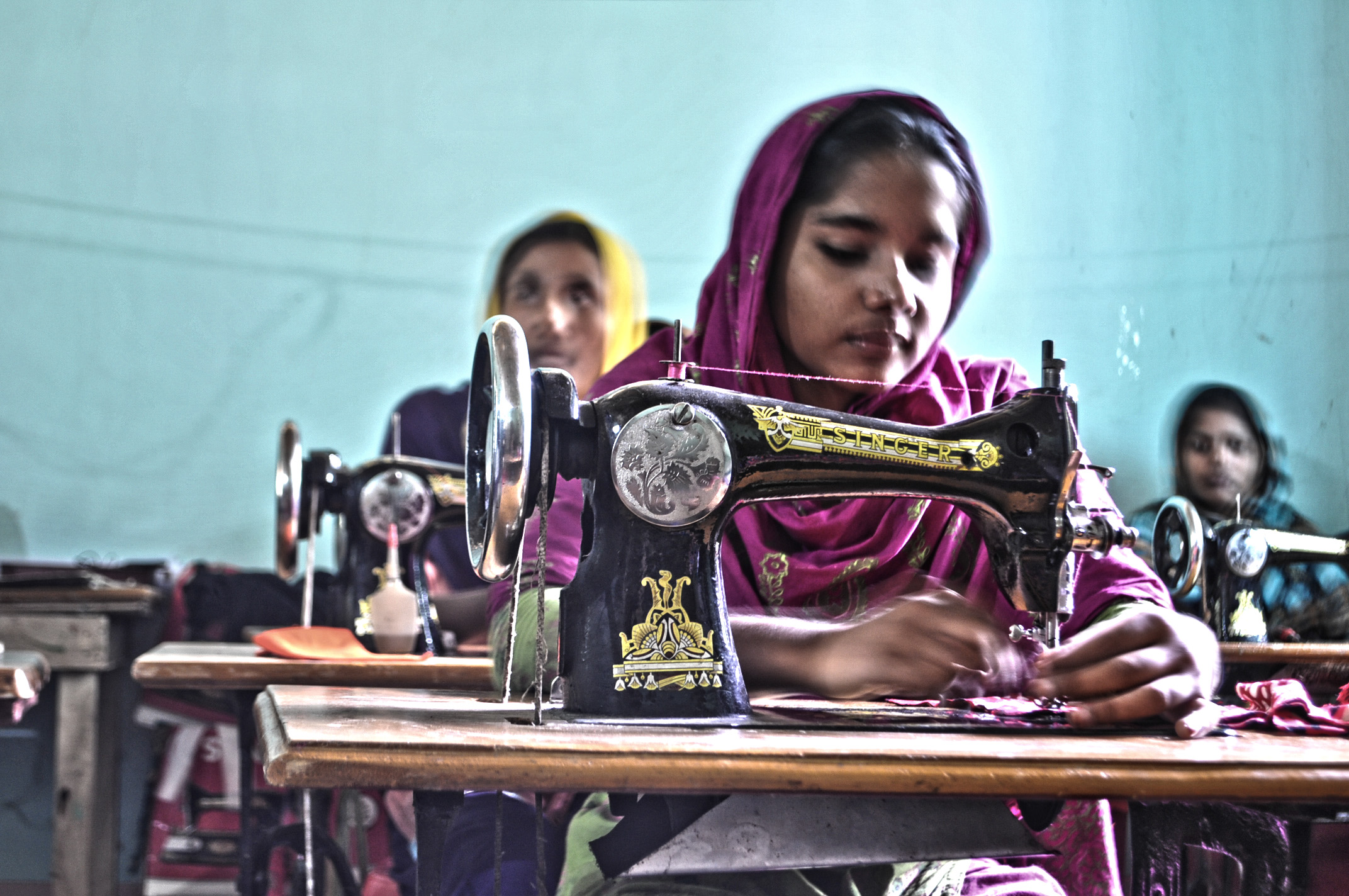 A female beneficiary under one of USAID's Global Climate Change (GCC) programs sewing clothes at a training center, as a part of Income Generation Activity.